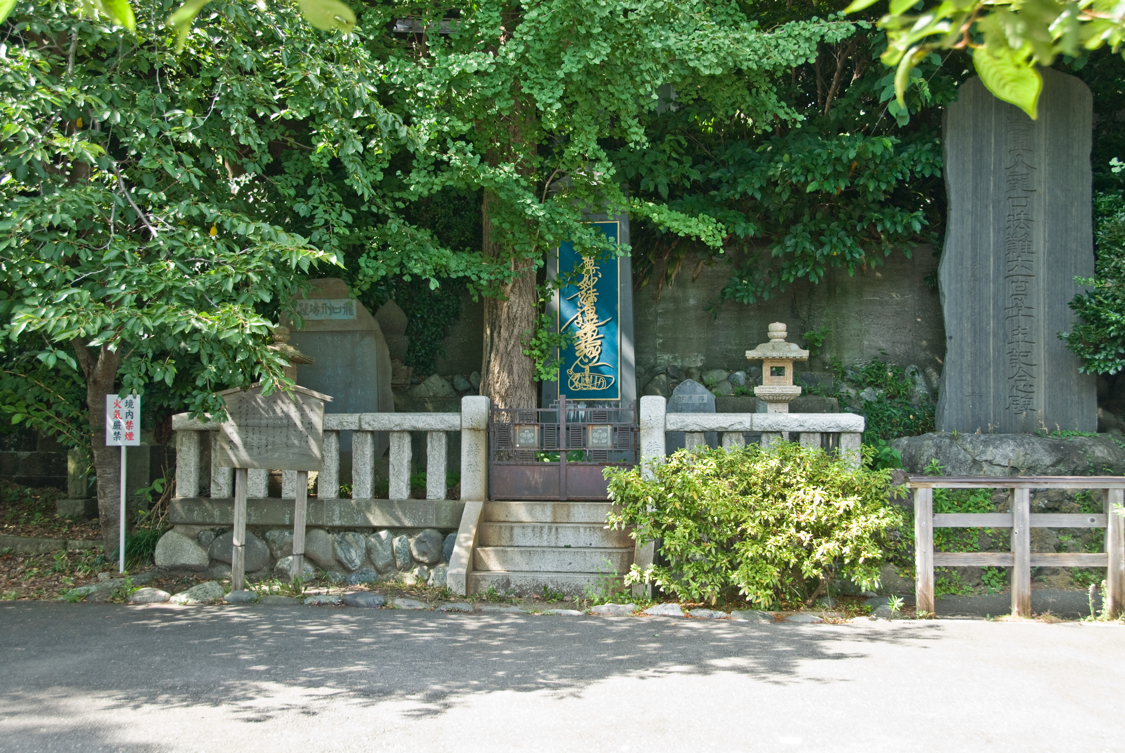 The spot at Ryukoji where Nichiren was almost executed